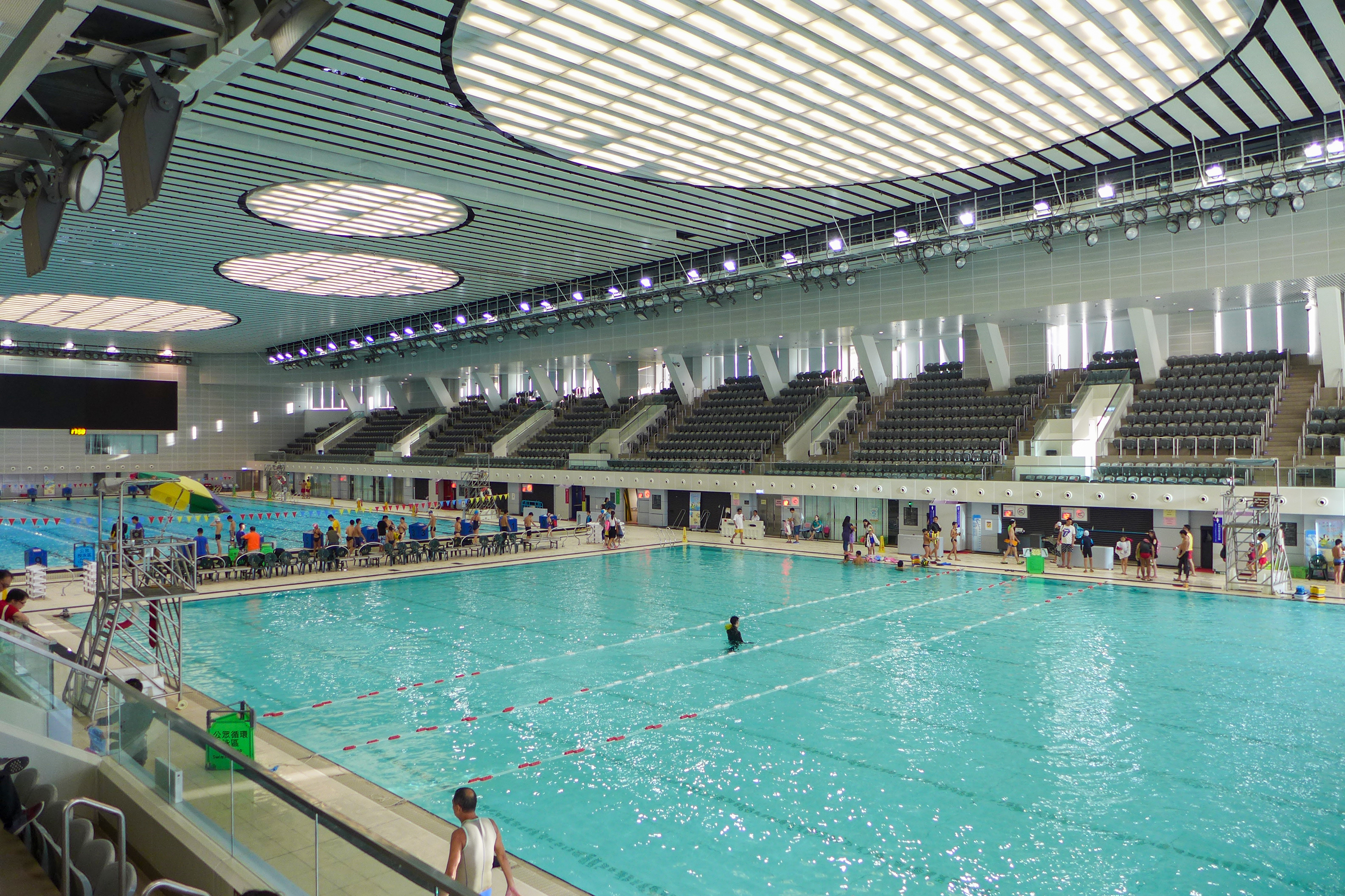 Victoria Park Swimming Pool